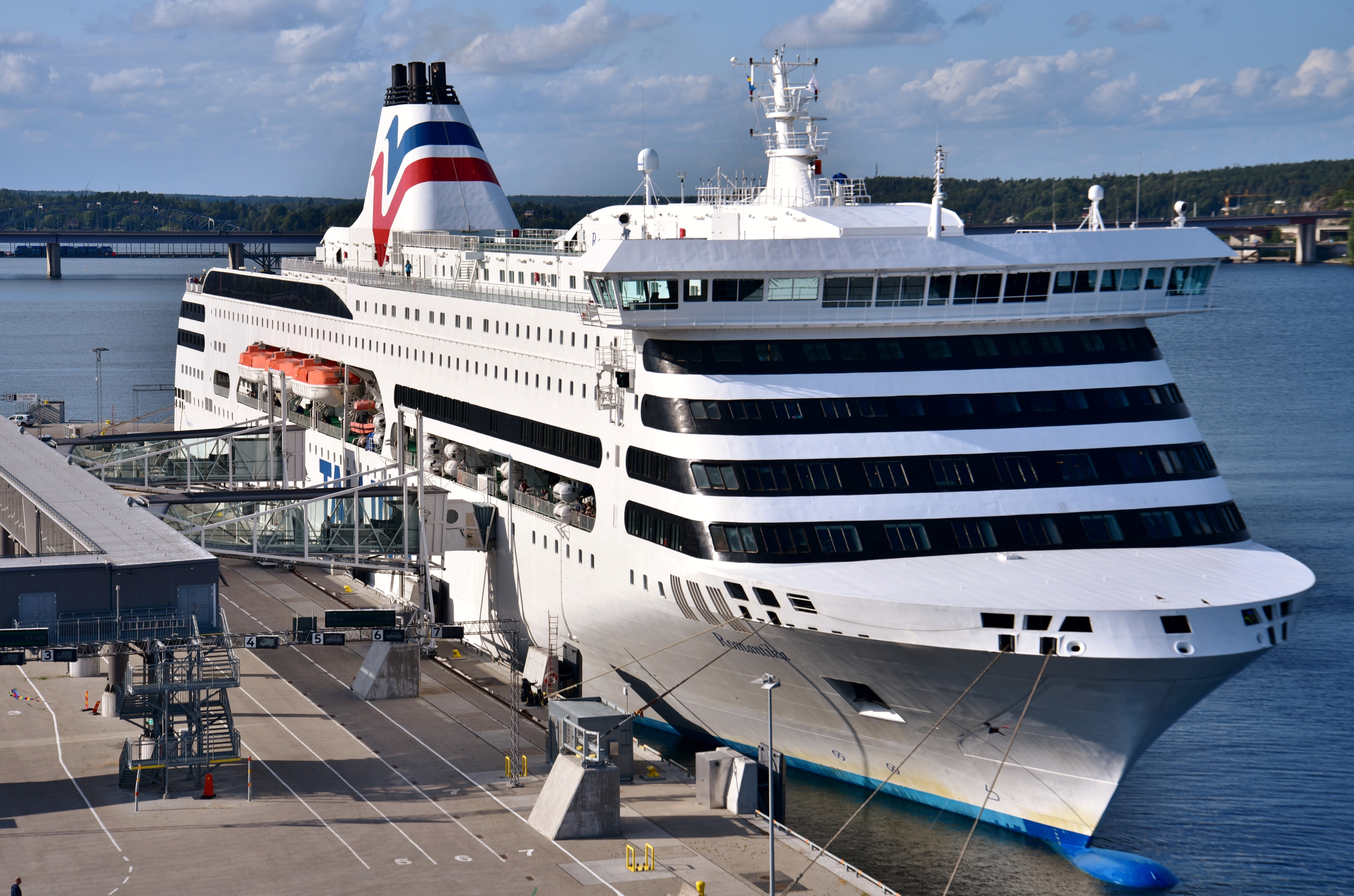 The cruiseferry Romantika, berthed at Värtaterminalen at Värtahamnen, Stockholm